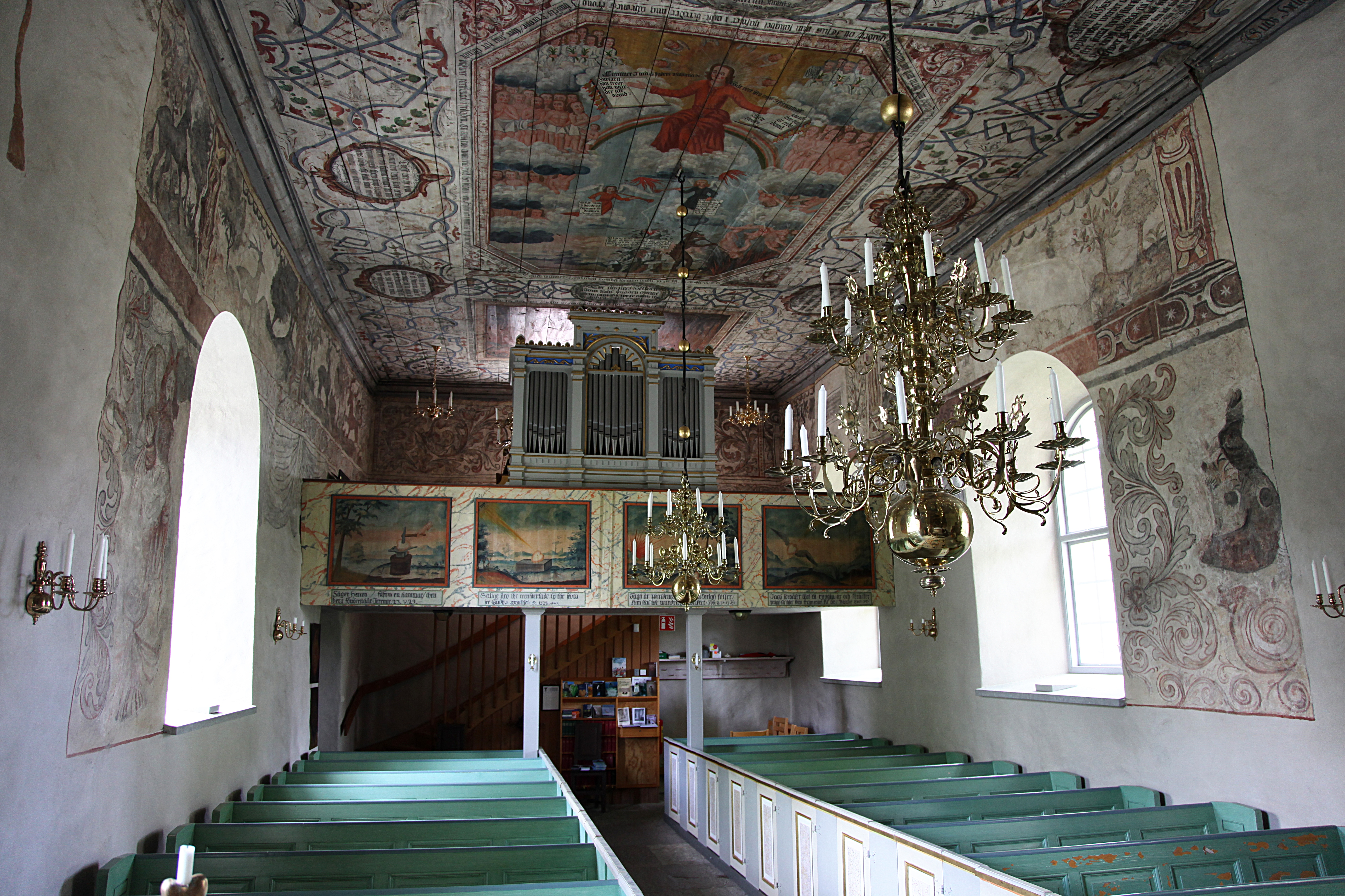 Interior in Fullõsa kyrka. A church near Lidköping